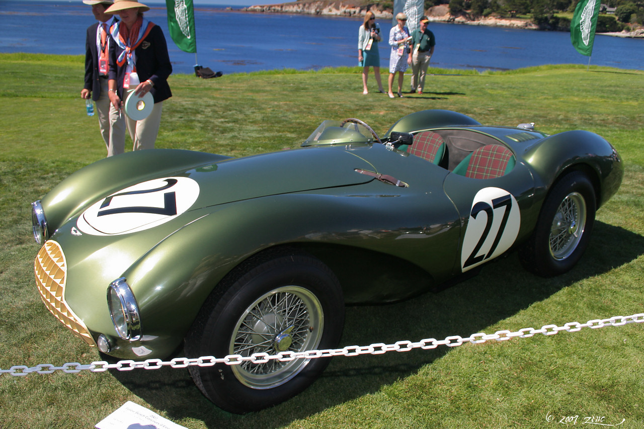 The 1953 Aston Martin DB3S/4 at 2007 Pebble Beach